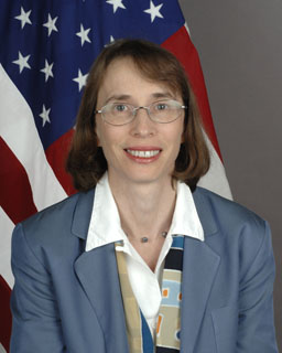 Official photo of Ambassador of the United States of America to Latvia Judith G. Garber